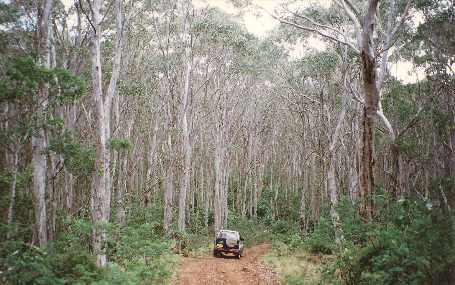 Snow Gums near Mt Barrington, elevation 1515 metres. Australia. Car is Daihatsu Feroza